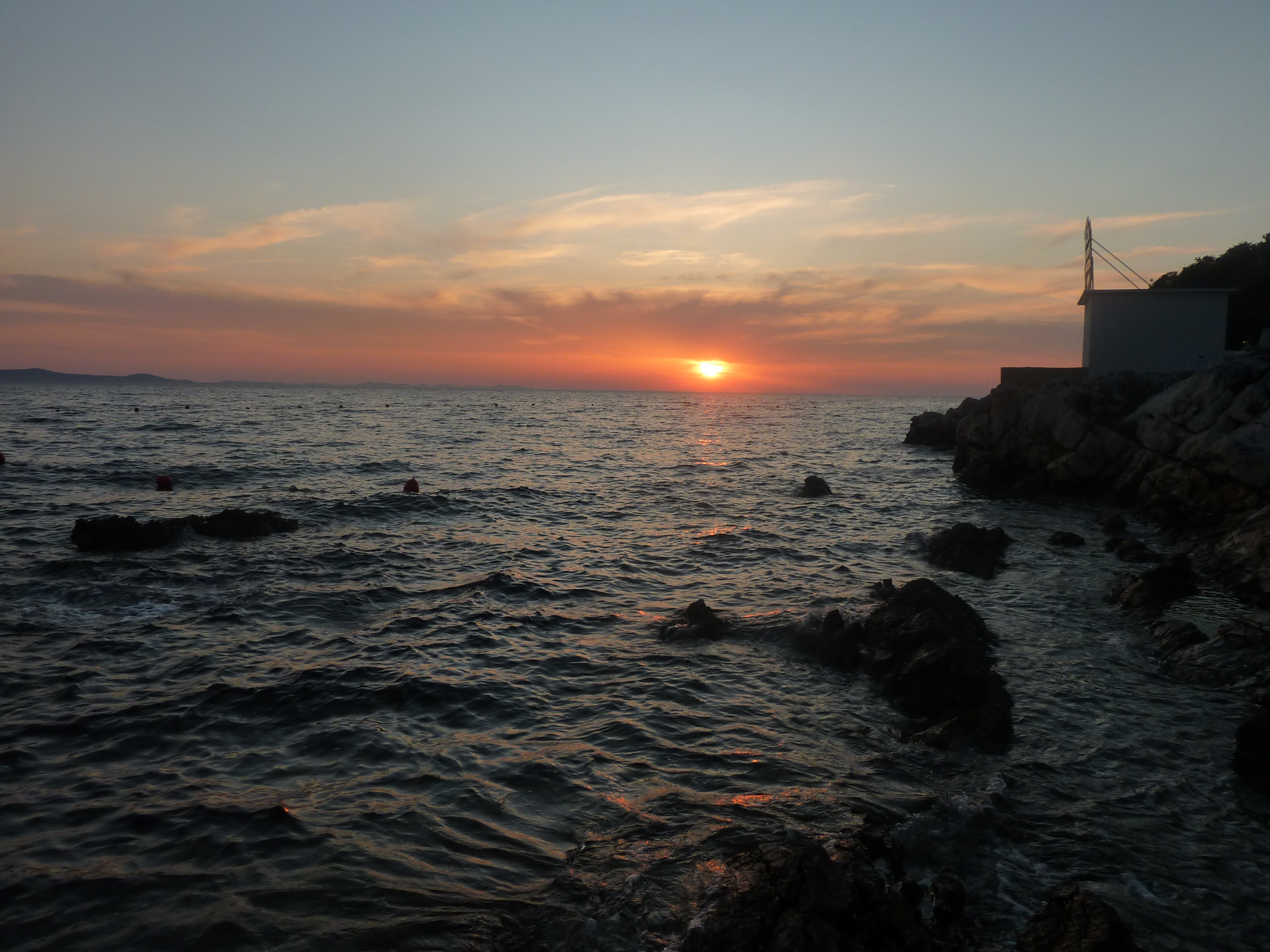 Colourful sunset from Punta Skala in Petrčane near Zadar, Croatia. Blue-purple-orange-red sunset.